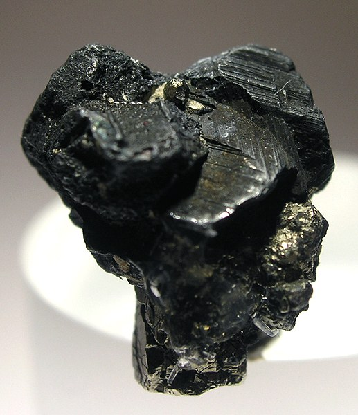 Pearceite-Tac Locality: Star West Mine, Butte, Butte District, Silver Bow County, Montana, USA (Locality at ) Size: thumbnail, 1.5 x 1 x .8 cm Pearceite SHARP, striated black crystals to 7 mm form a 360-degree cluster atop a bright crystal of some other sulfide, on this pretty amazing thumbnail specimen! I am told it was purchased from Gene Schlepp in 1992 and came out of an old Butte collection he was handling at the time. The only reported locality on MINDAT for the species from Butte is this mine, so I presume that is the specific mine from whence it came. 1.5 x 1 x .8 cm